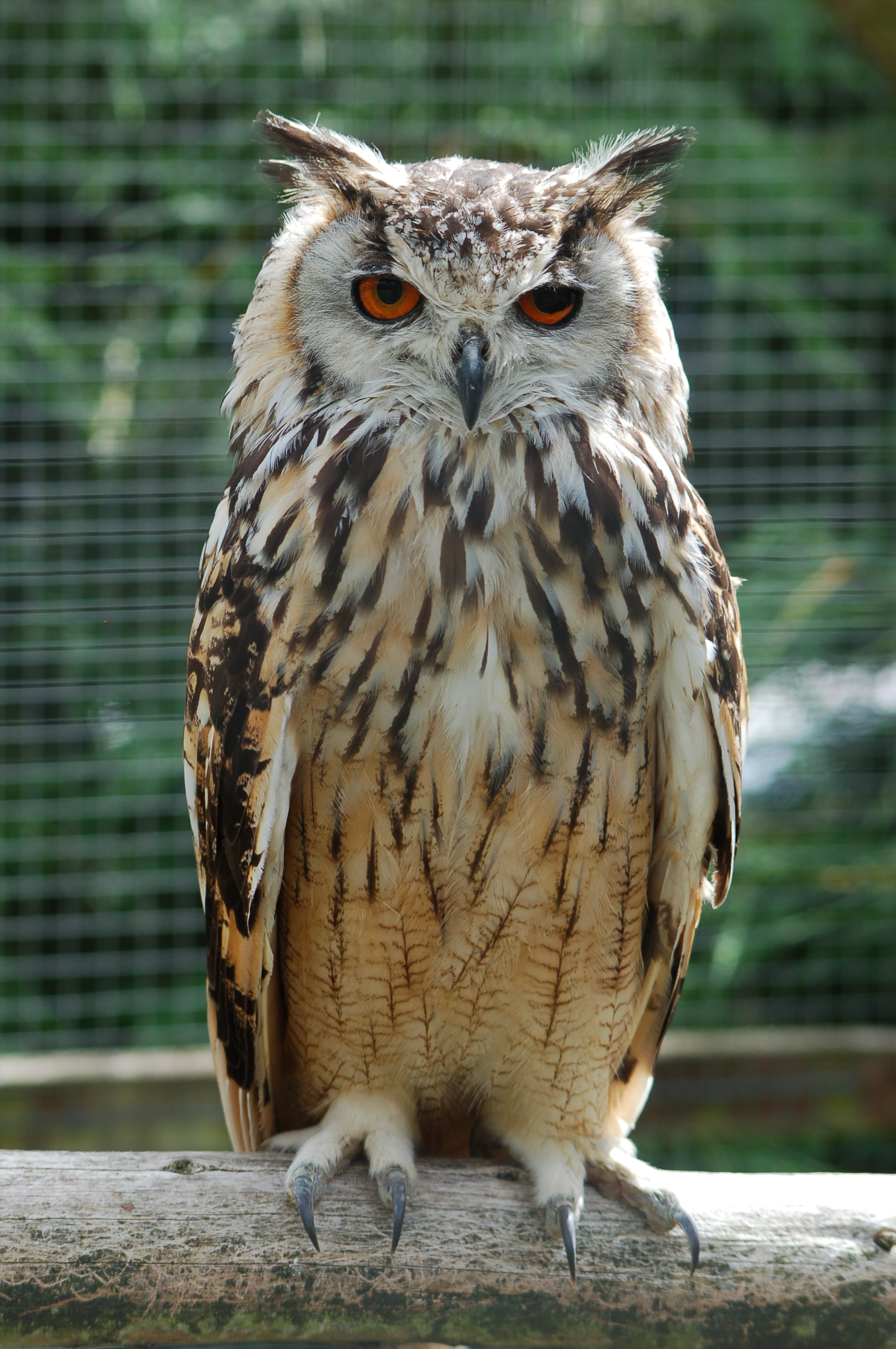 Photo of a Bengalese Eagle Owl (Bubo bengalensis)